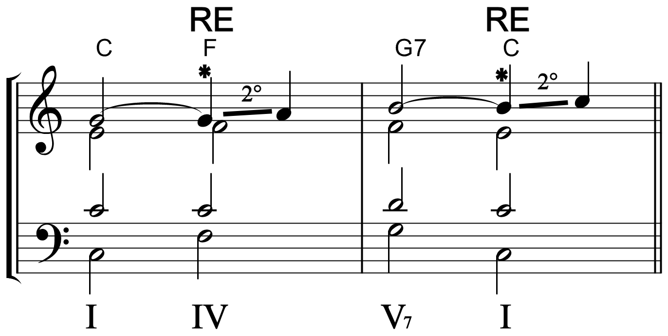 Retardations. In the definition used by the Tokyo University of the Arts, they are called 'lower suspensions' (下方掛留音).